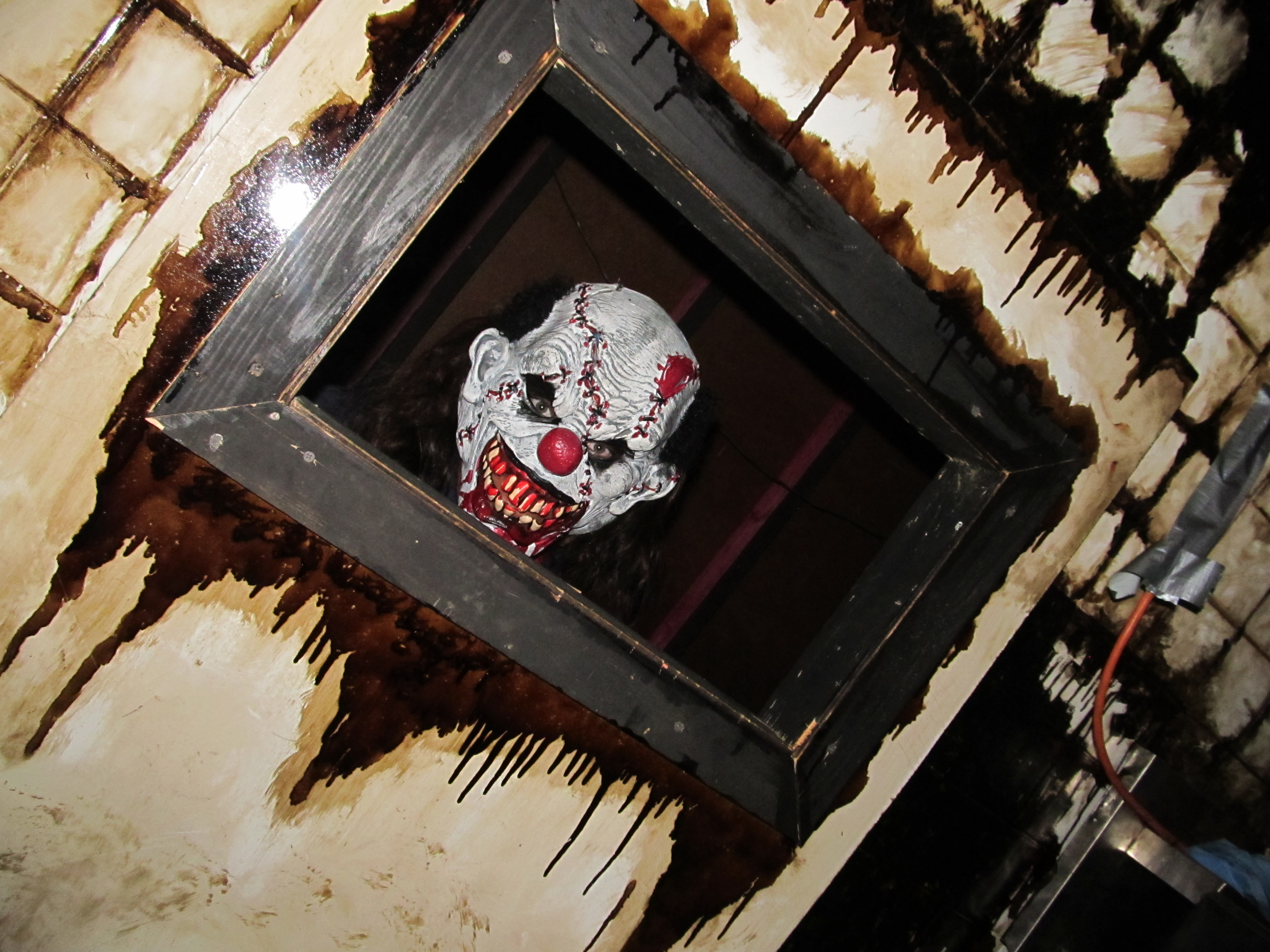 Actor in a 'freezer' scare at Doc Wilkes House of Horrors in Longview, Texas (United States).